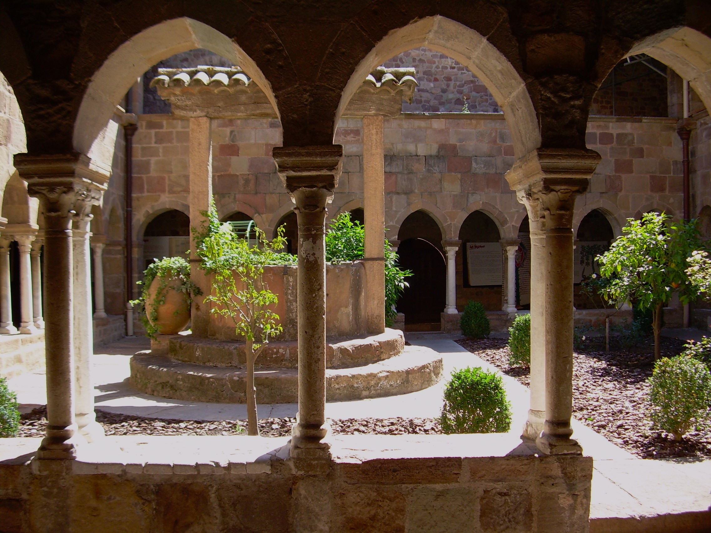 Cloister of Saint-Leonce Cathedral, Frejus, France